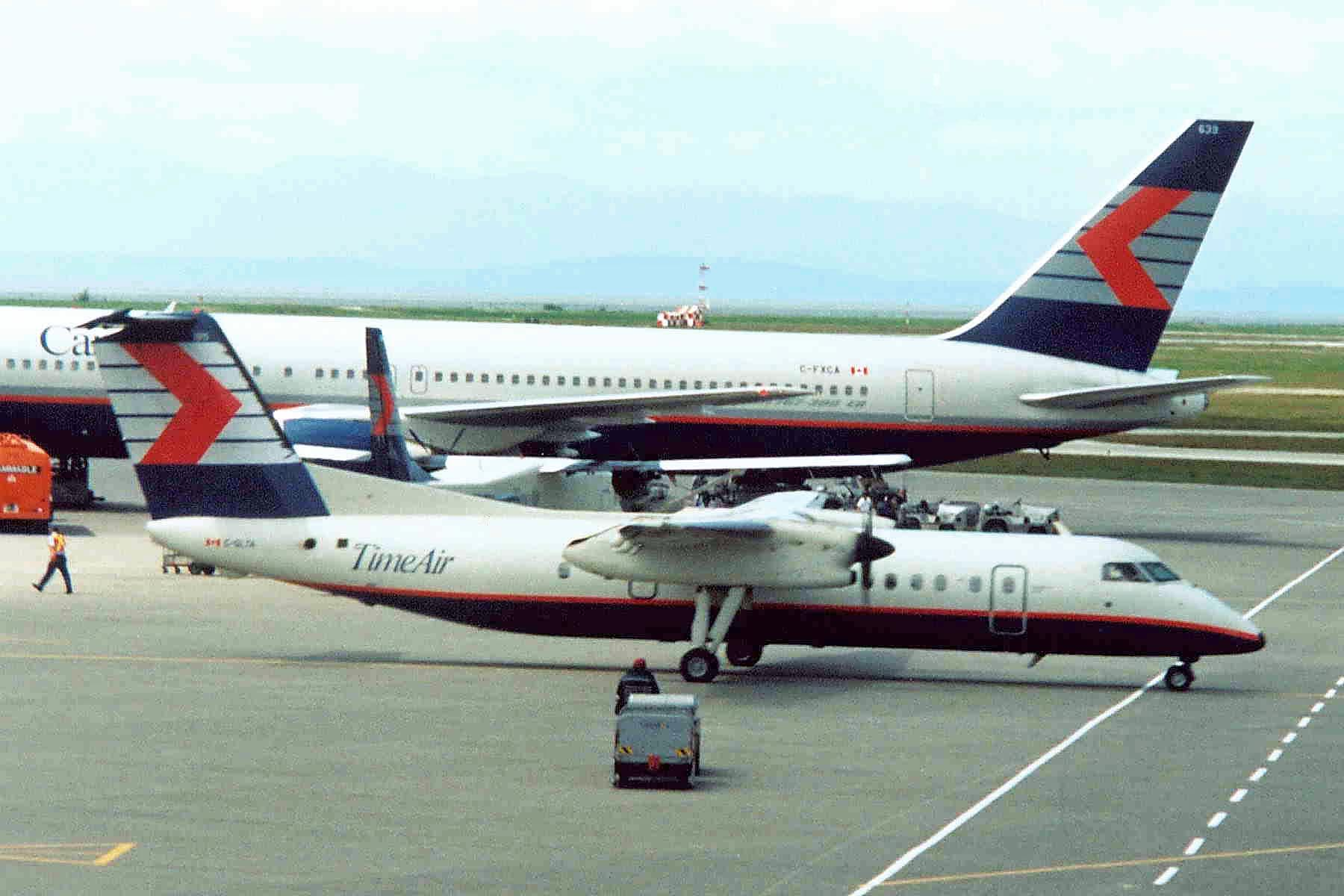 Time Air